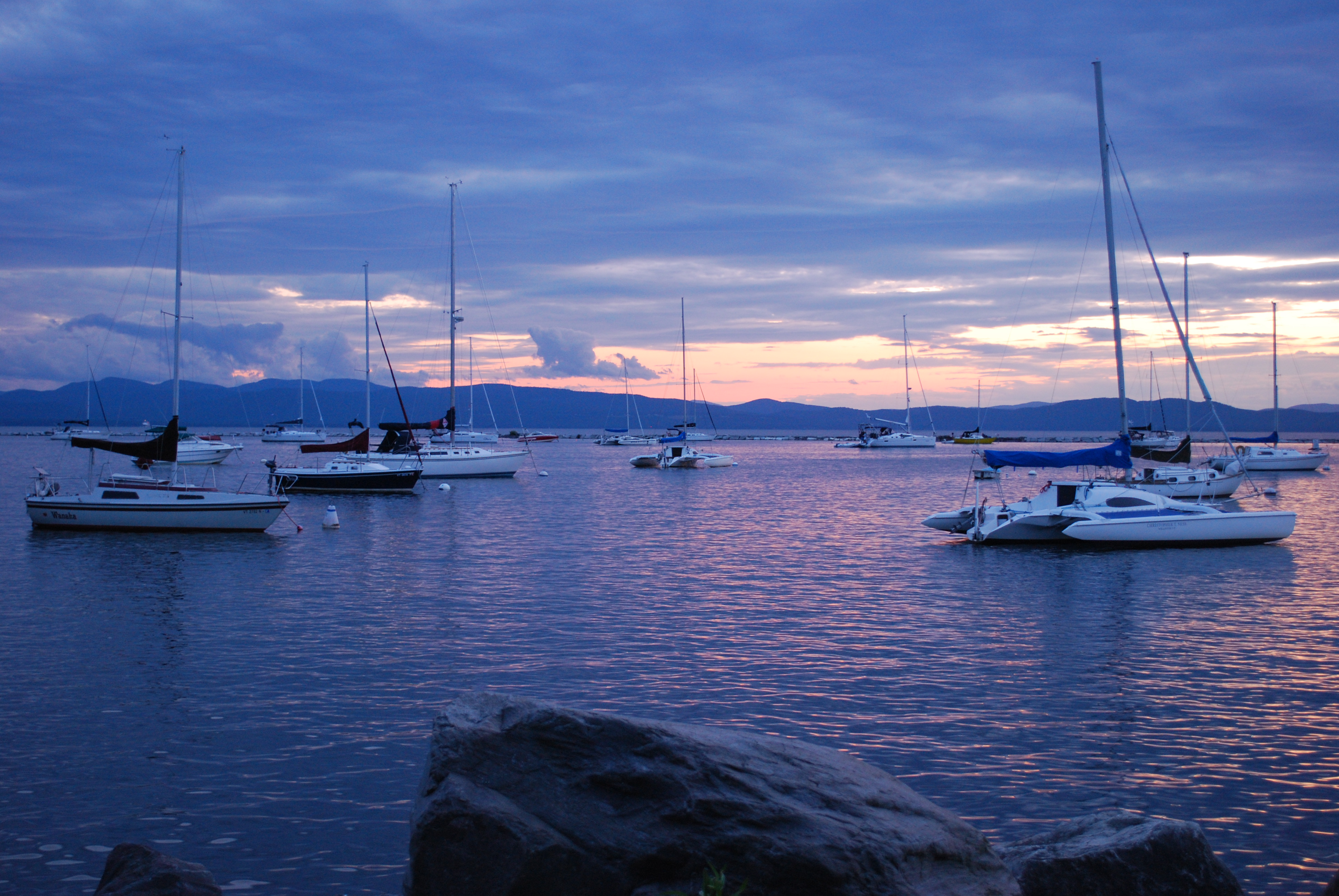 Lake Champlain at dusk.